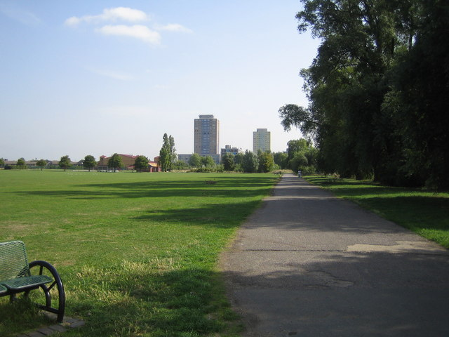 Tottenham: Lordship Recreation Ground. The two distant tower blocks are on the Broadwater Farm Estate and The Moselle river flows parallel to the path and beyond the trees to the right.